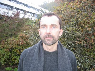 Photo of Kai Behrend